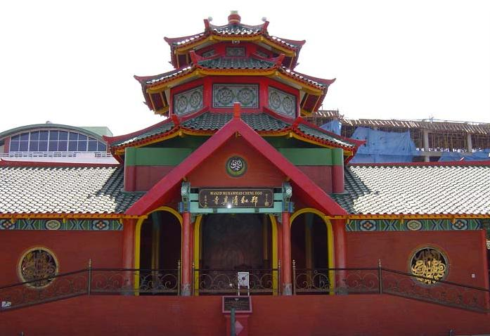 this is picture of masjid cheng ho